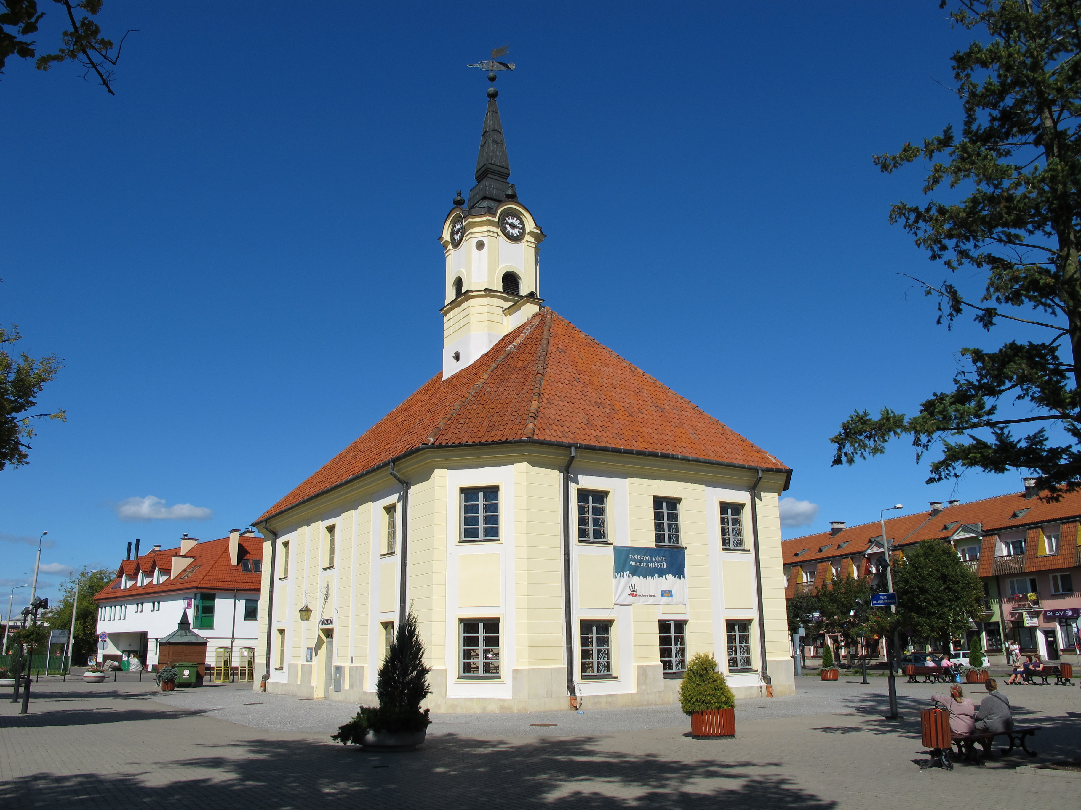 Town hall by Mickiewicza 45 in Bielsk Podlaski, gmina Bielsk Podlaski, podlaskie, Poland.